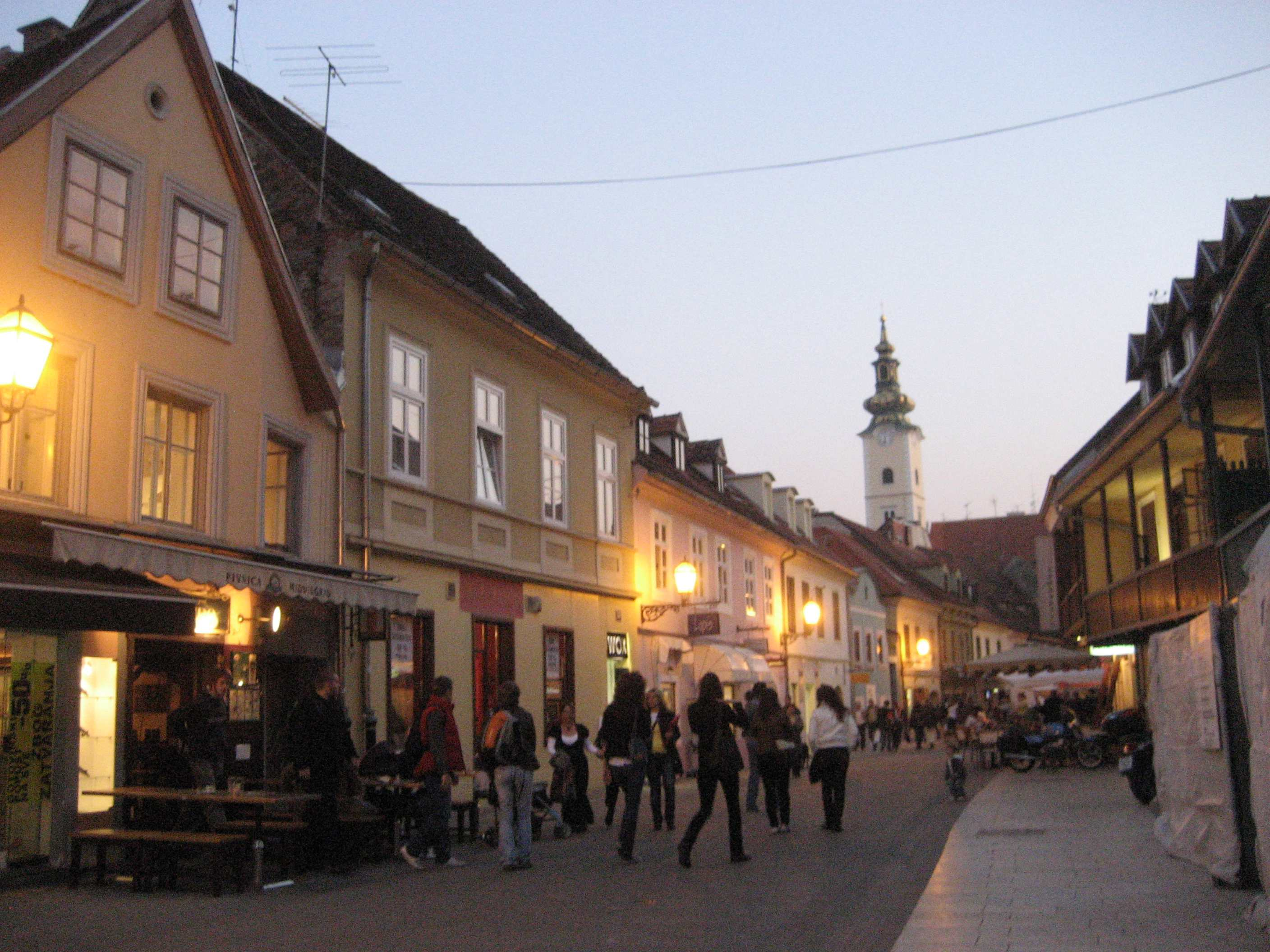 Tkalciceva, Zagreb